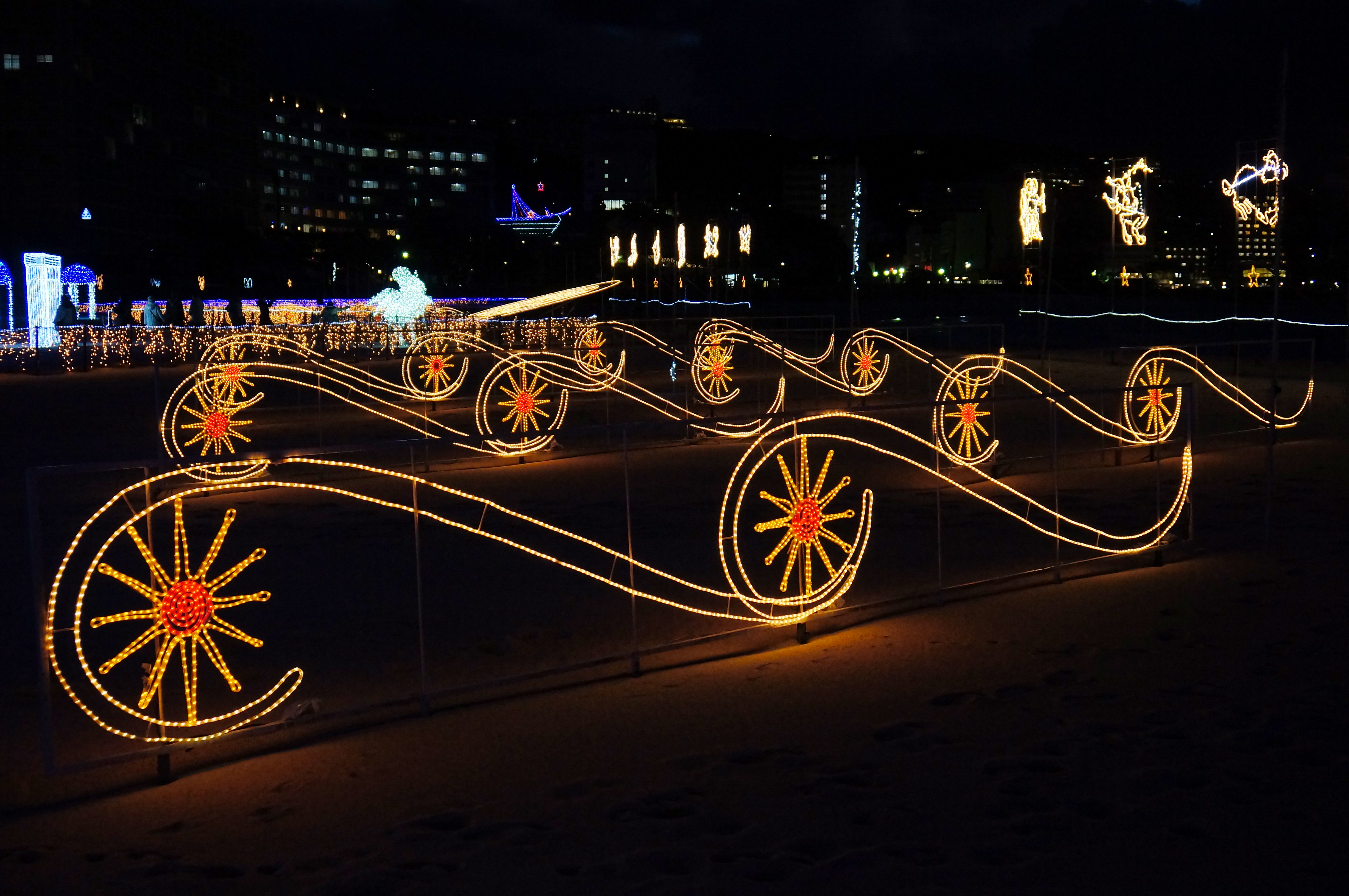 Shirarahama Beach in Shirahama, Wakayama prefecture, Japan.